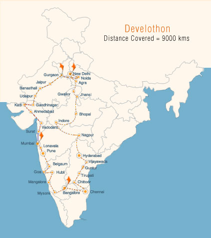 Tour map of Develothon 2010